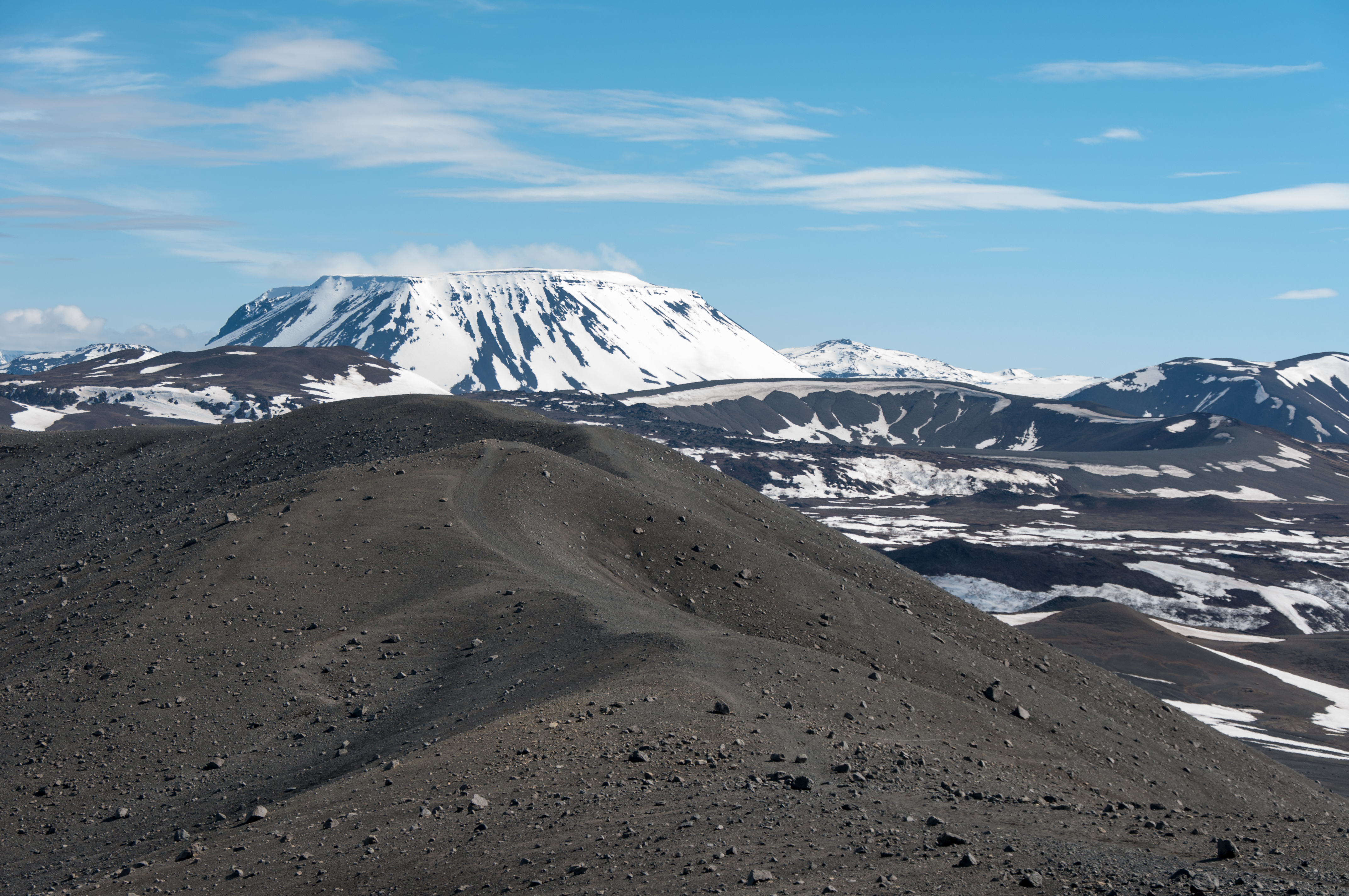 Iceland, hiking trip to Hverfjall